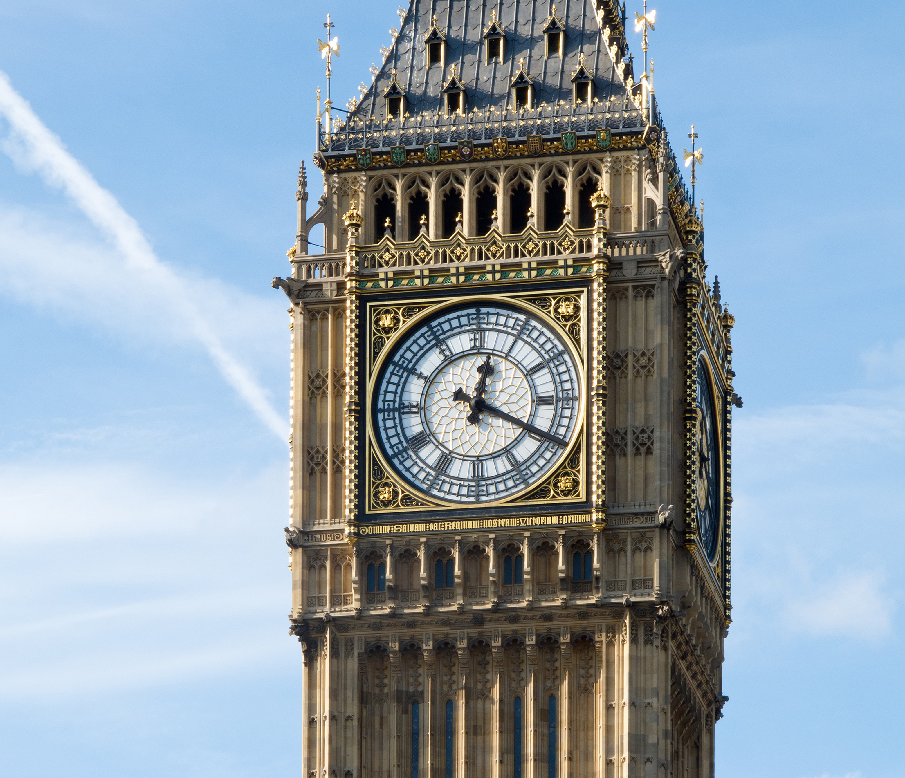 Detail of the Clock Tower (usually referred to as Big Ben) of the Palace of Westminster, London, England, United Kingdom.